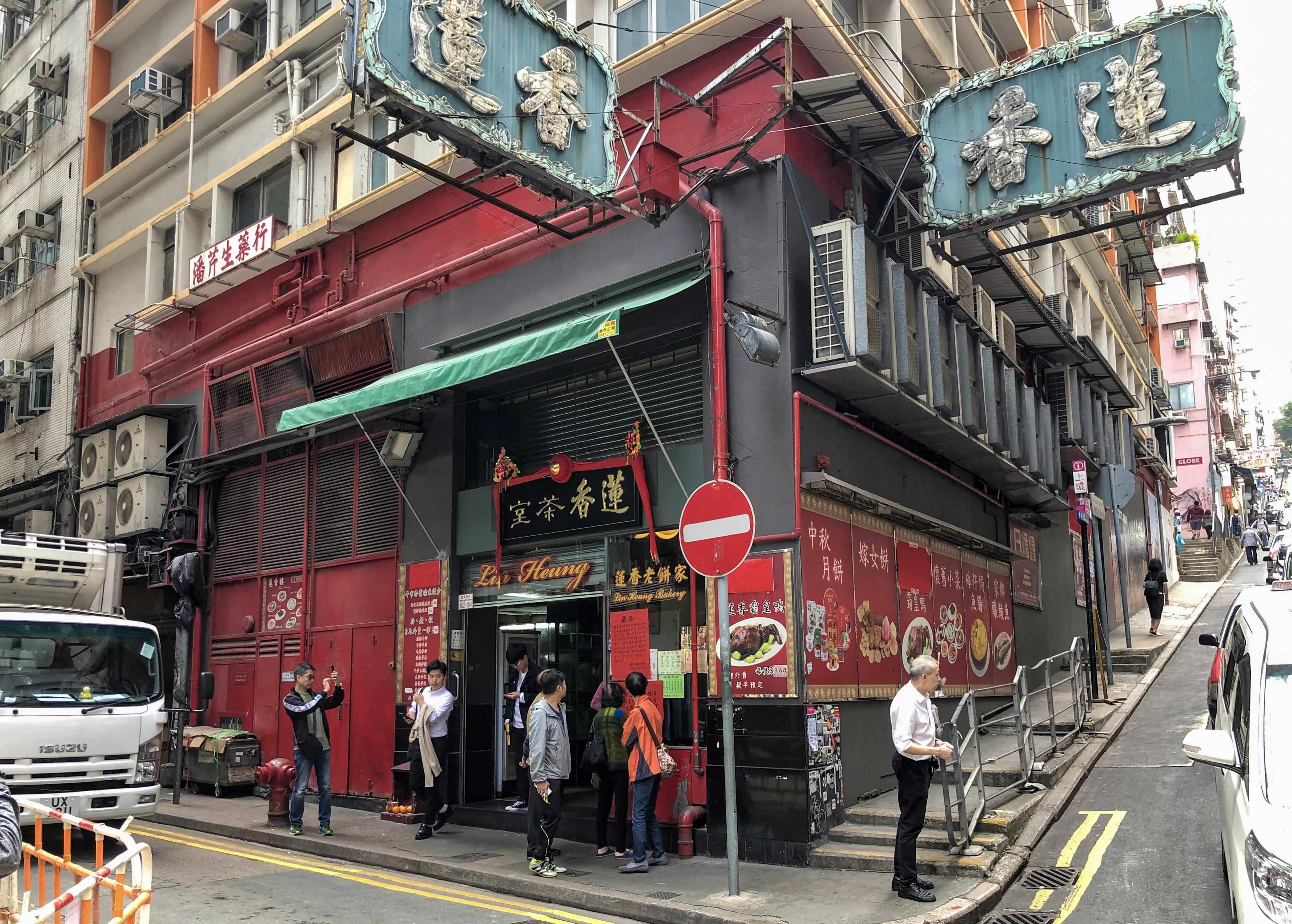 Just renamed a bit, but still no vacancy.